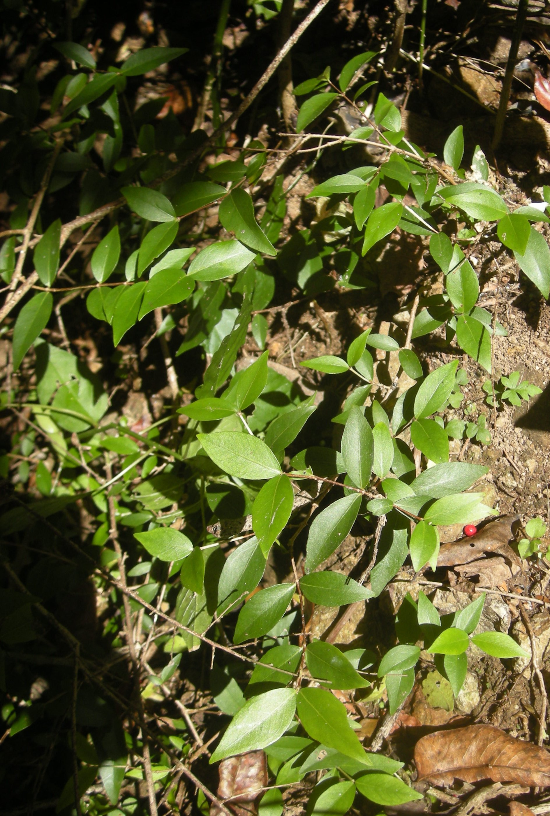 Gossia bidwillii (Austromyrtus bidwillii) seedlings